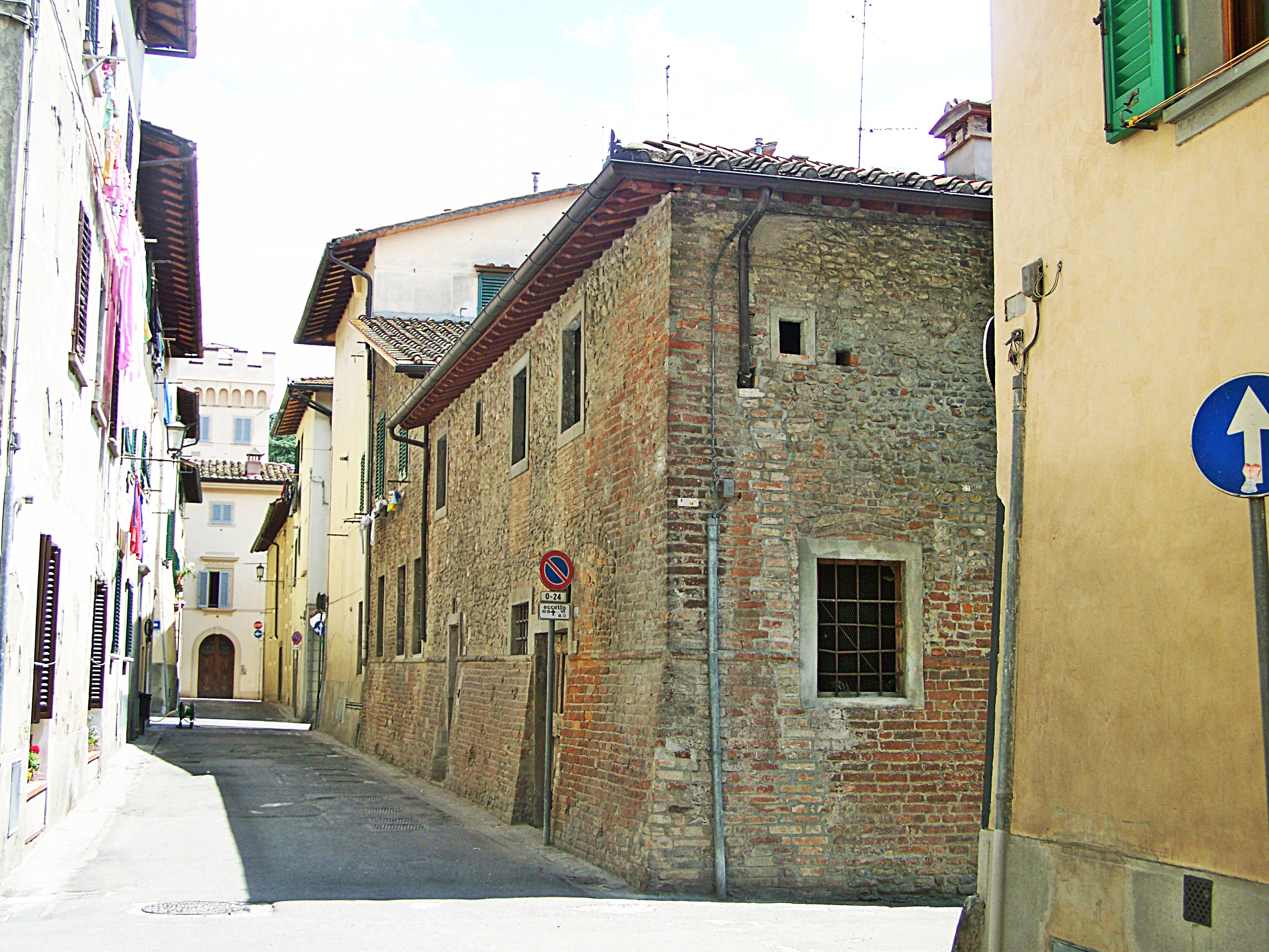 a road of the village